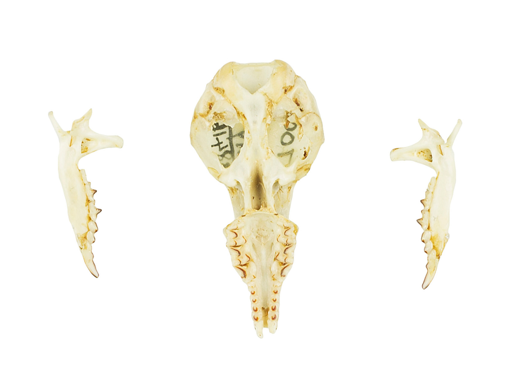 Skull of American Water Shrew (Sorex palustris); record ID: nmnheducation_10026394